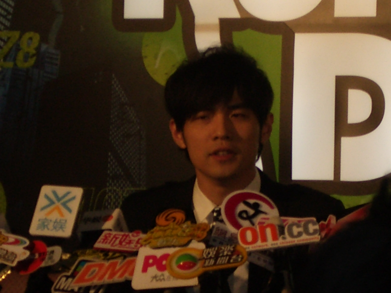 Jay Chou